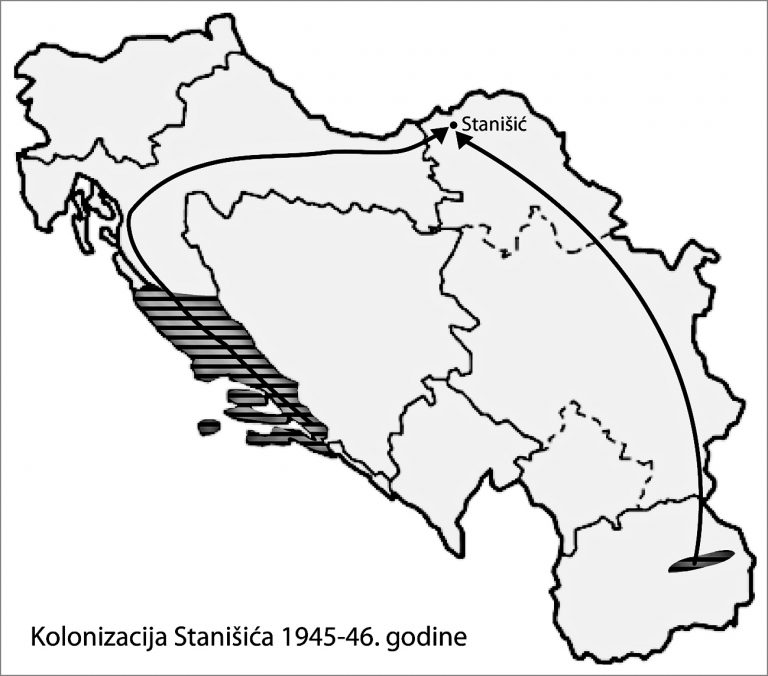 Kolonizacija Dalmatinaca